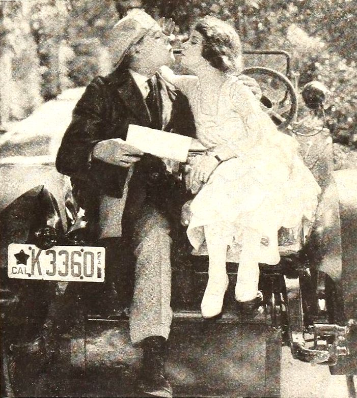 Still from the American silent film Please Get Married (1919) with Viola Dana and Antrim Short, page 65 of the October 1919 Shadowland.